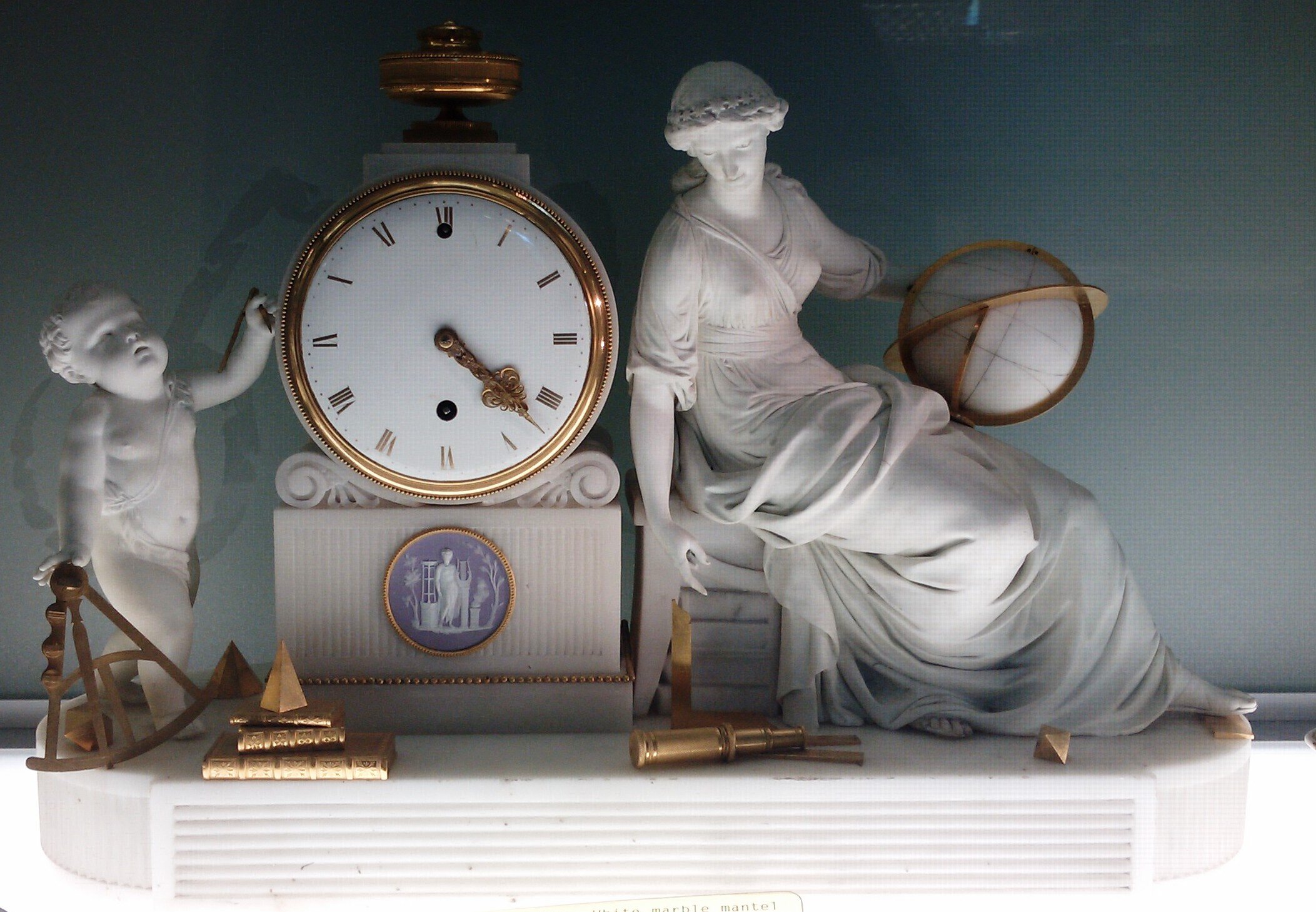 Mantel Clock by Benjamin Vulliamy that is now in Derby Museum